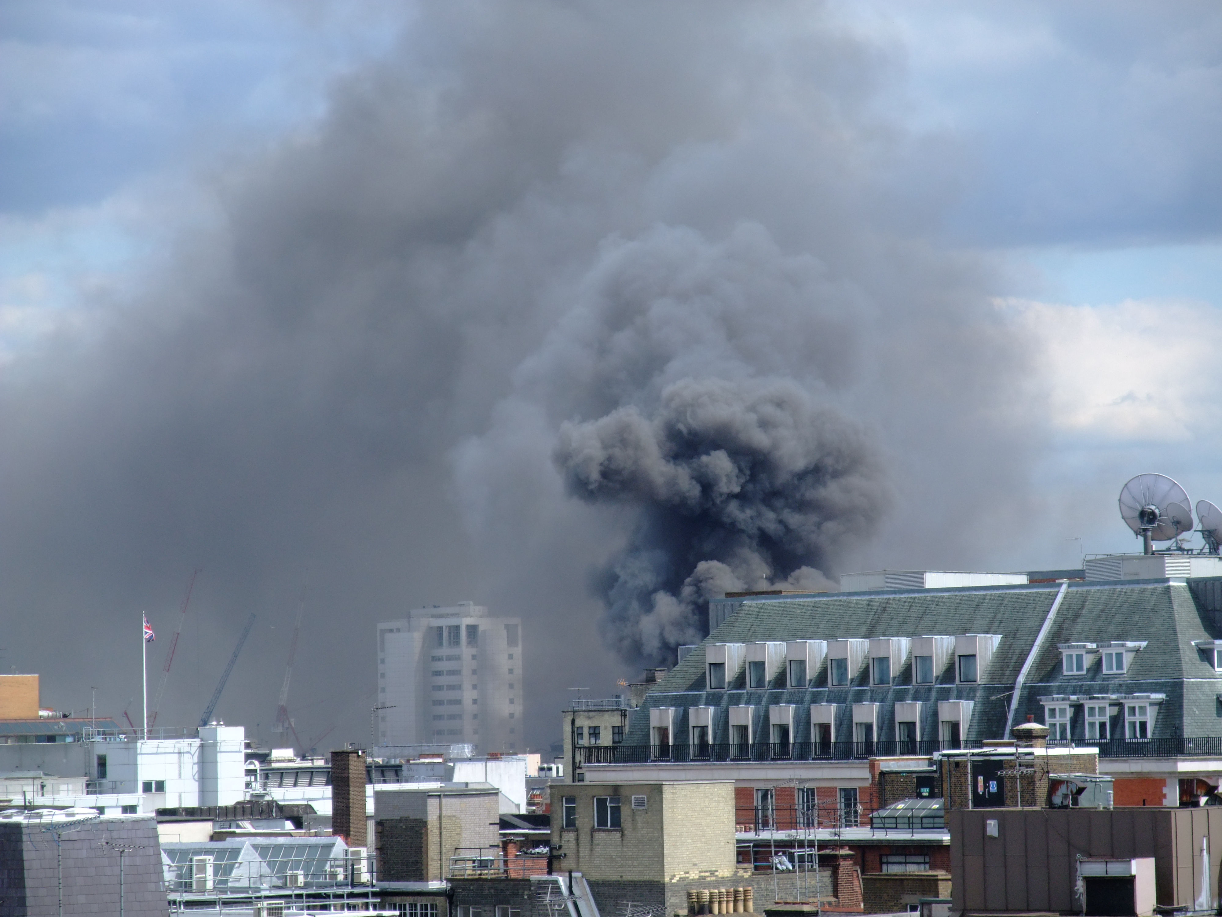 Fire in Dean Street - visible from Henry Wood House